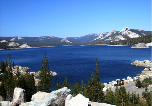 Courtright Reservoir in the Sierra Nevada, within the Sierra National Forest and Fresno County, California.